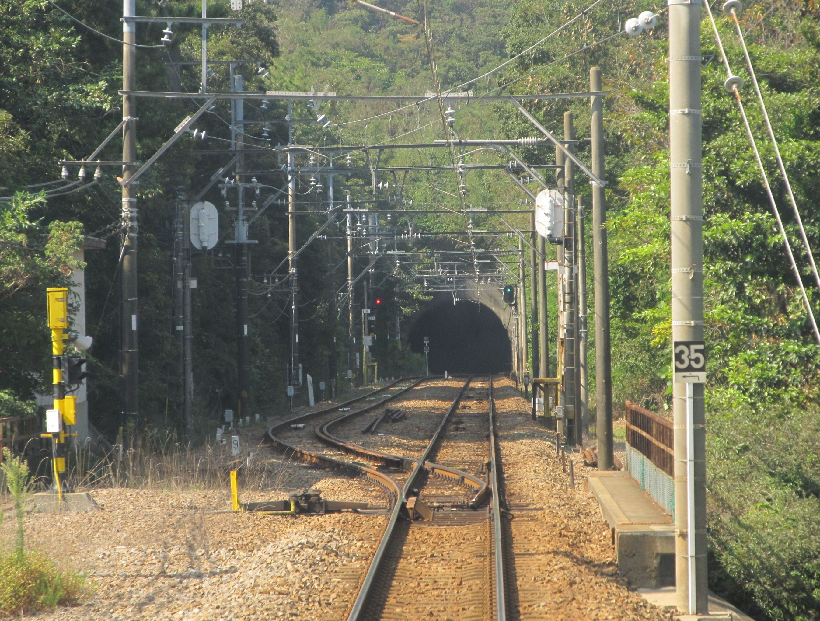 Nagoya Railroad Chita Line Bessōike Signal Box